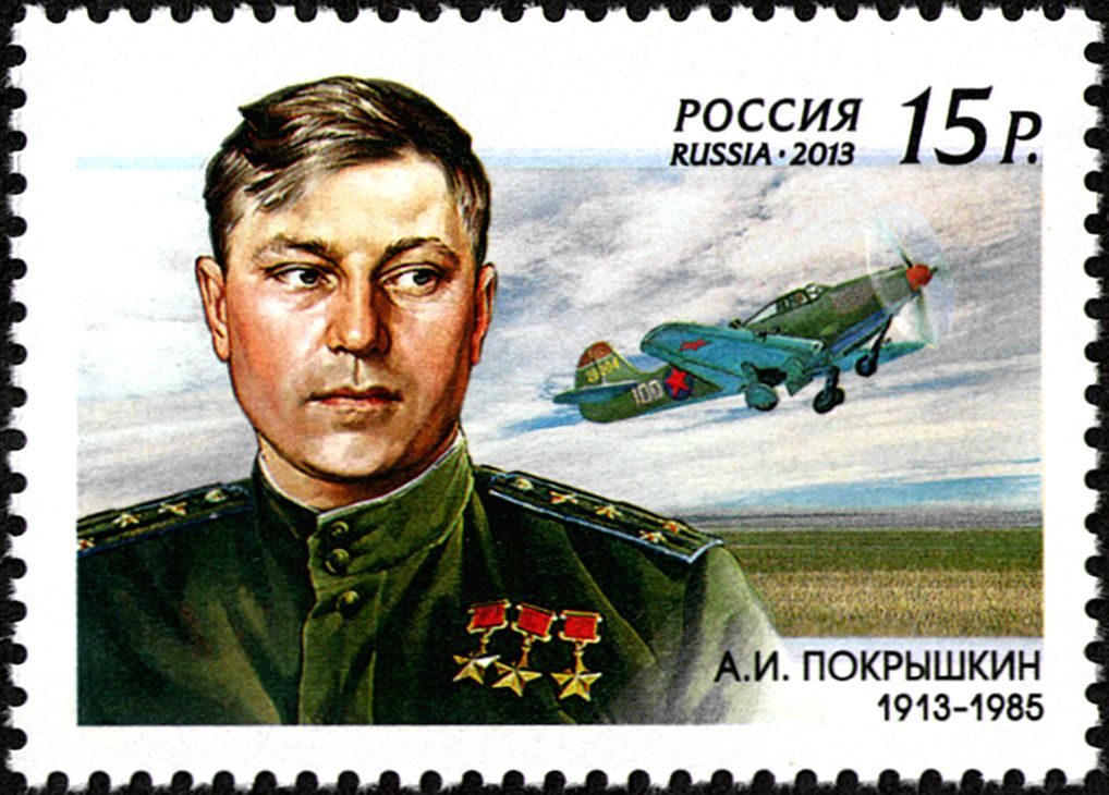 100th birth anniversary of Alexander Pokryshkin (1913–1985), a Soviet military aviator, a World War II fighter ace; a thrice Hero of the Soviet Union (1943, 1943, 1944), a Marshal of the Soviet Air Force (1972).The Portrait of Alexander Pokryshkin by Sergey Prisekin (fragment). 1995. Oil on canvas. 104×80 cm. Central Armed Forces Museum.On the right: a fighter aircraft Bell P-39 Airacobra, the fighter of Alexander Pokryshkin in 1943–1944.The stamp of Russia, 15 Rubles, 22 February 2013, PTC Marka Catalogue No 1675, Michel No 1907. Coated paper. Offset printing. Perforation: comb 12½:12. Size of the stamp: 42×30 mm. Print run: 400,000.